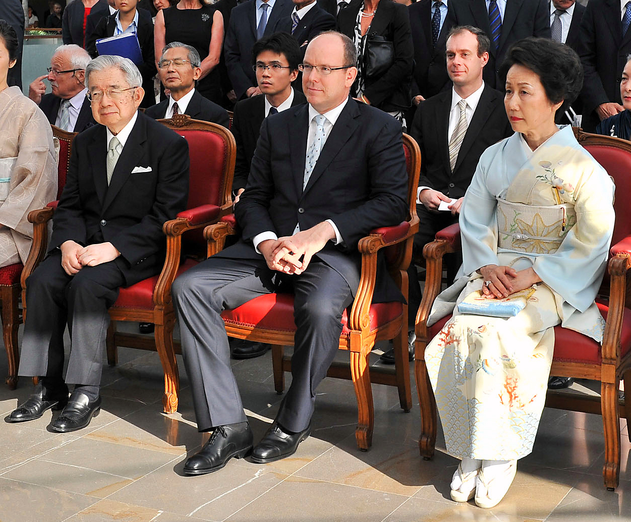 Prince Albert II, Prince Masahito, Princess Hanako and Yukiya Amano, Director General of the International Atomic Energy Agency, attended the opening ceremony of the art exhibition "Kyoto-Tokio" at the Grimaldi Forum in Larvotto Ward, Monaco City on July 13, 2010.